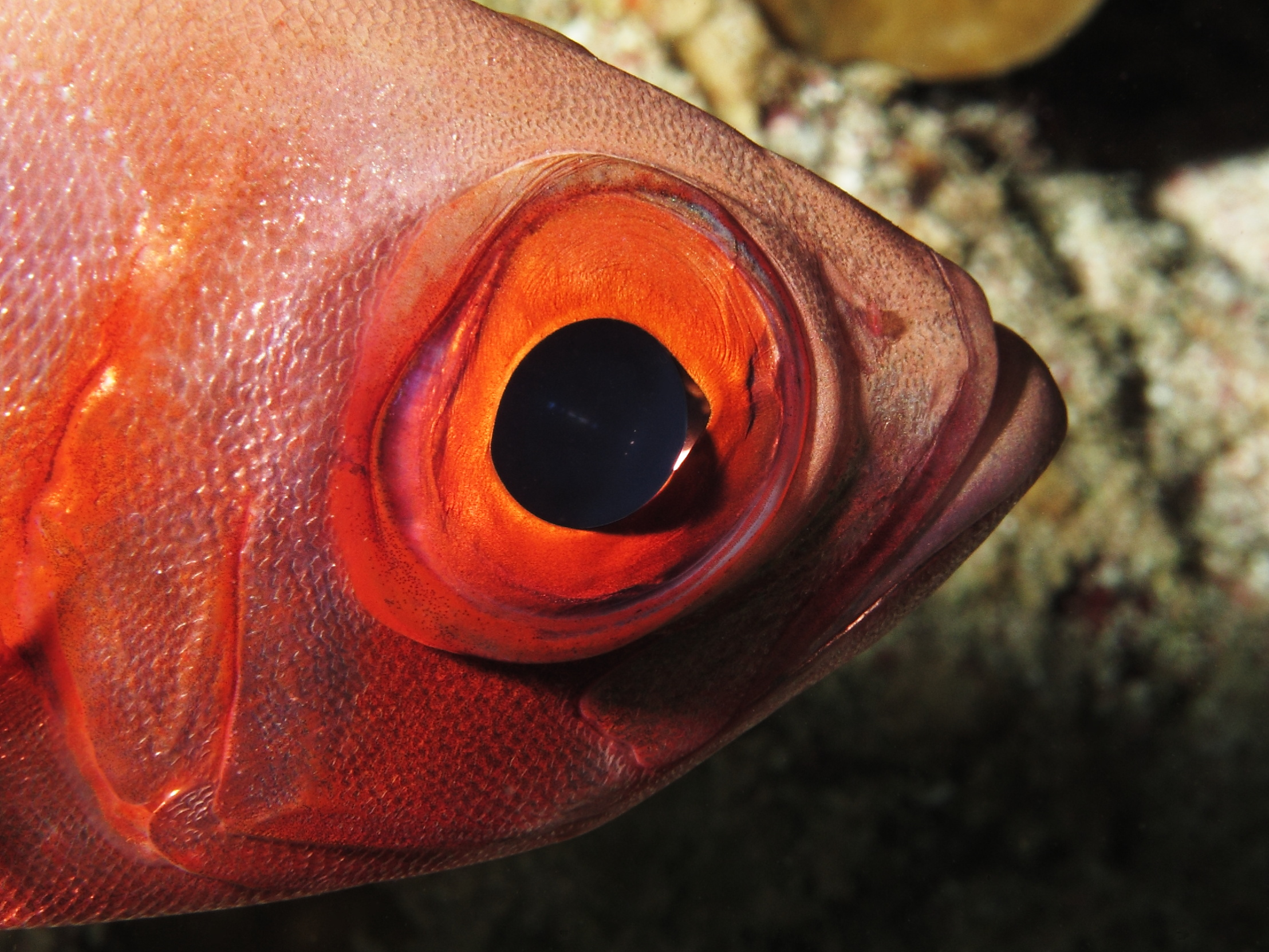 Eye of moontail bullseye (Priacanthus hamrur) at Shaab Sharm (Red Sea, Egypt)